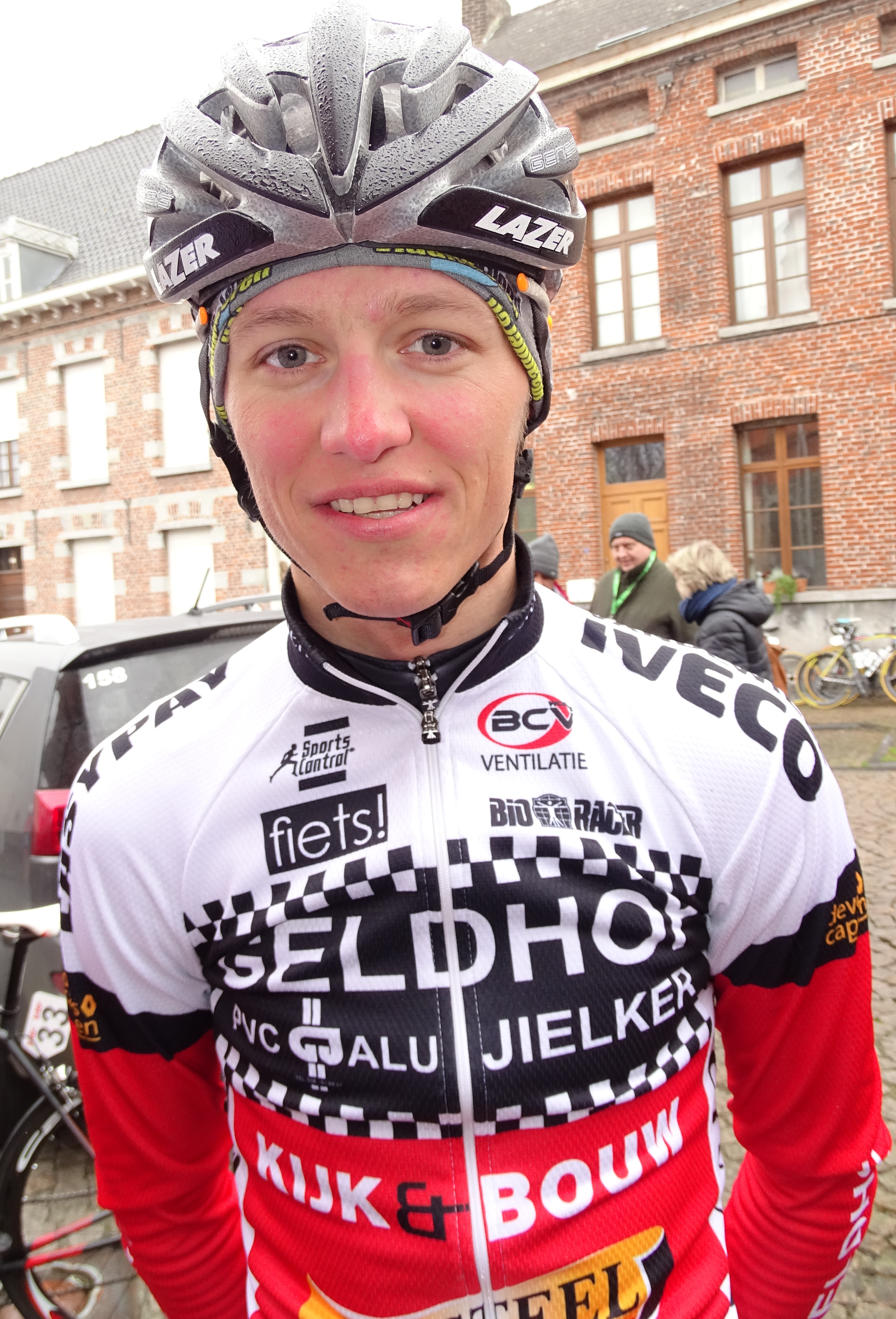 Triptyque des Monts et Châteaux 2015 Depicted person: Robby Cobbaert Depicted team: BCV Works-Soenens